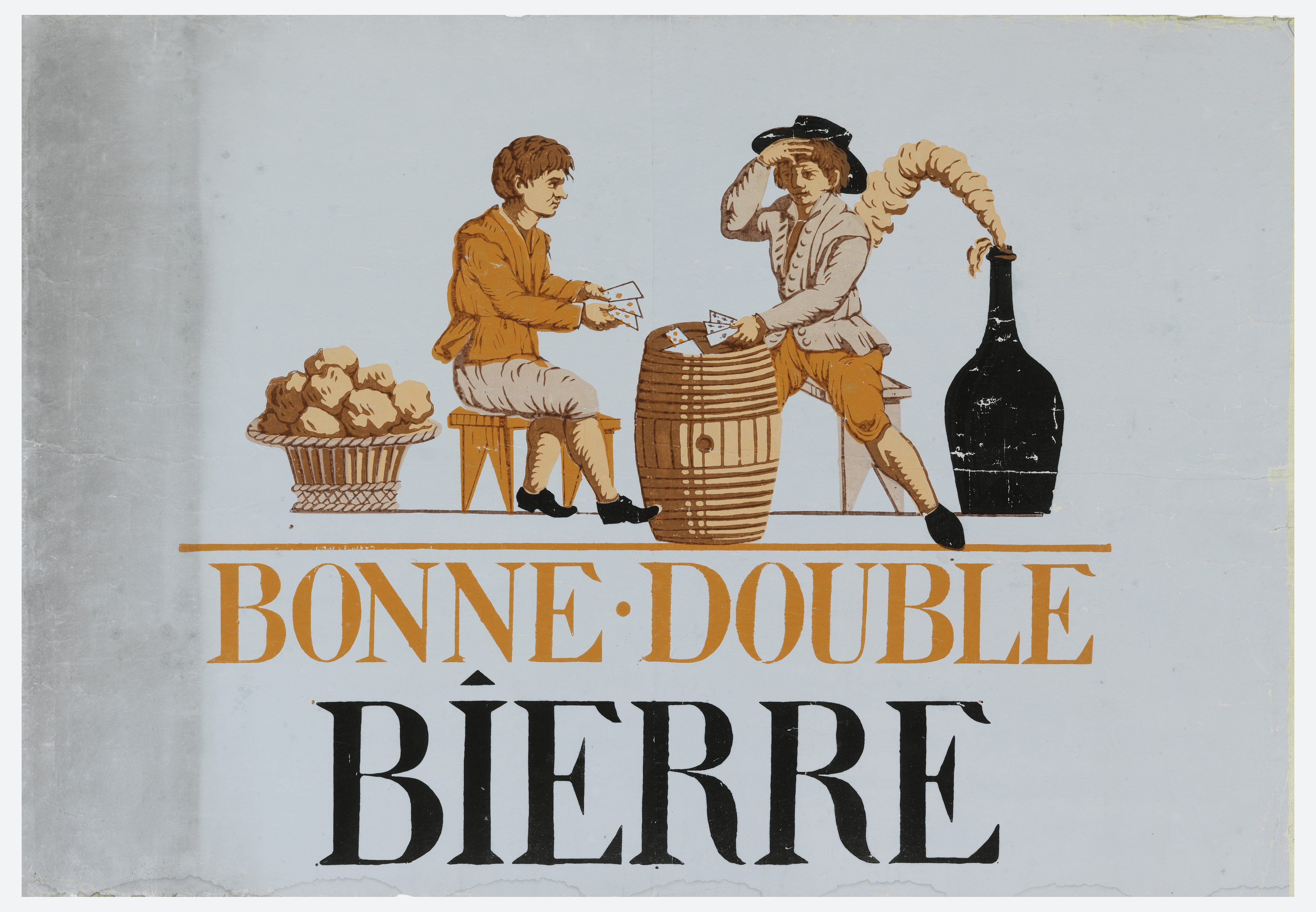 Two figures, sitting on benches, playing cards on a barrel, to the left sits a full basket, to the right sits a black jug releasing smoke.